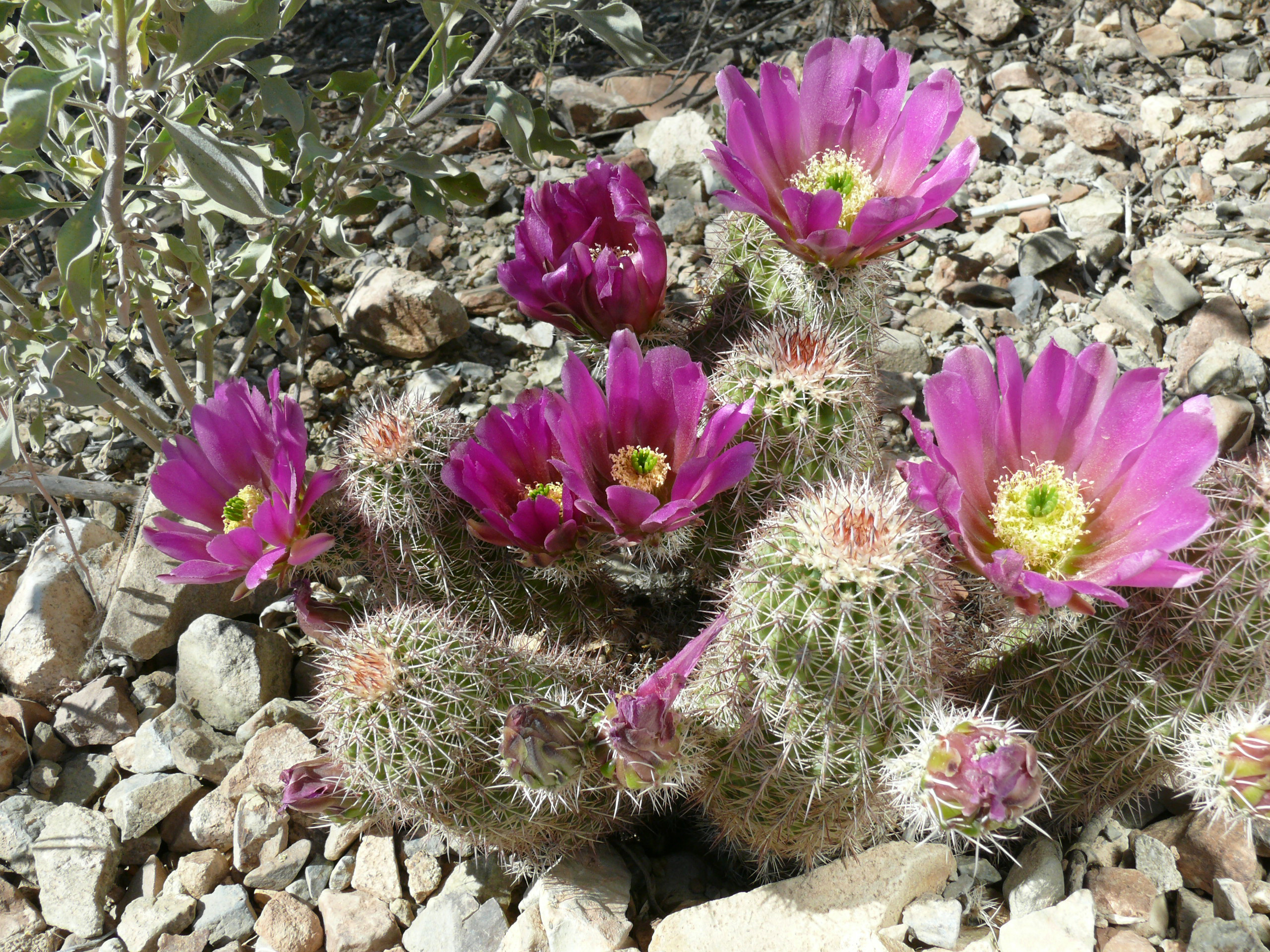 Echinocereus bonkerae, hedgehog cactus. Taken at the Arizona Sonoran Desert Museum, Tucson, AZ